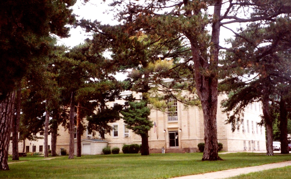 The Crawford County, Wisconsin courthouse in Prarie du Chien, Wisconsin.